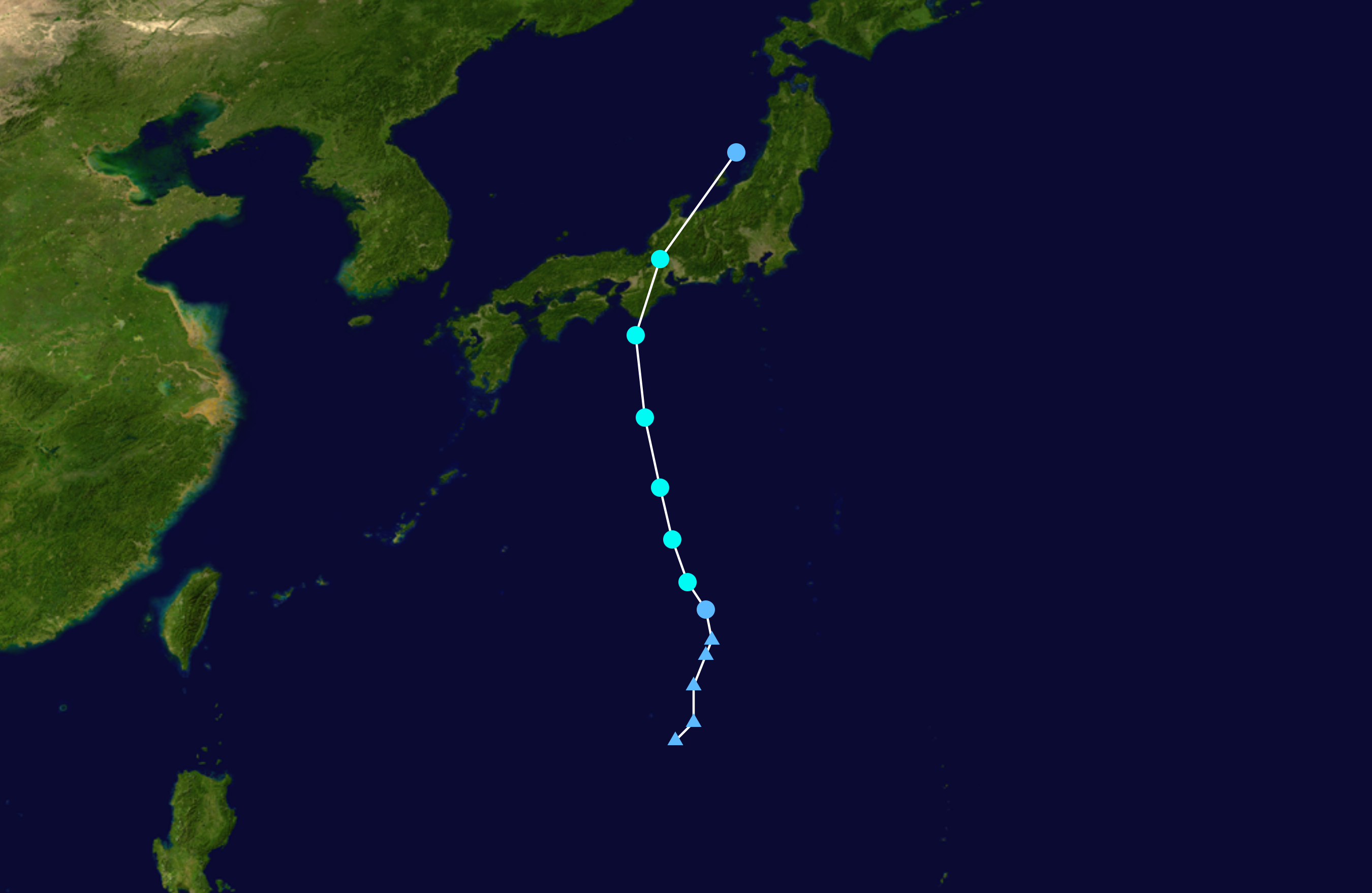 Track map of Tropical Storm Waldo of the 1998 Pacific typhoon season. The points show the location of the storm at 6-hour intervals. The colour represents the storm's maximum sustained wind speeds as classified in the Saffir–Simpson scale (see below), and the shape of the data points represent the nature of the storm, according to the legend below. Saffir–Simpson scale Tropical depression≤38 mph≤62 km/h Category 3111–129 mph178–208 km/h Tropical storm39–73 mph63–118 km/h Category 4130–156 mph209–251 km/h Category 174–95 mph119–153 km/h Category 5≥157 mph≥252 km/h Category 296–110 mph154–177 km/h Unknown Storm type Tropical cyclone Subtropical cyclone Extratropical cyclone / Remnant low / Tropical disturbance / Monsoon depression